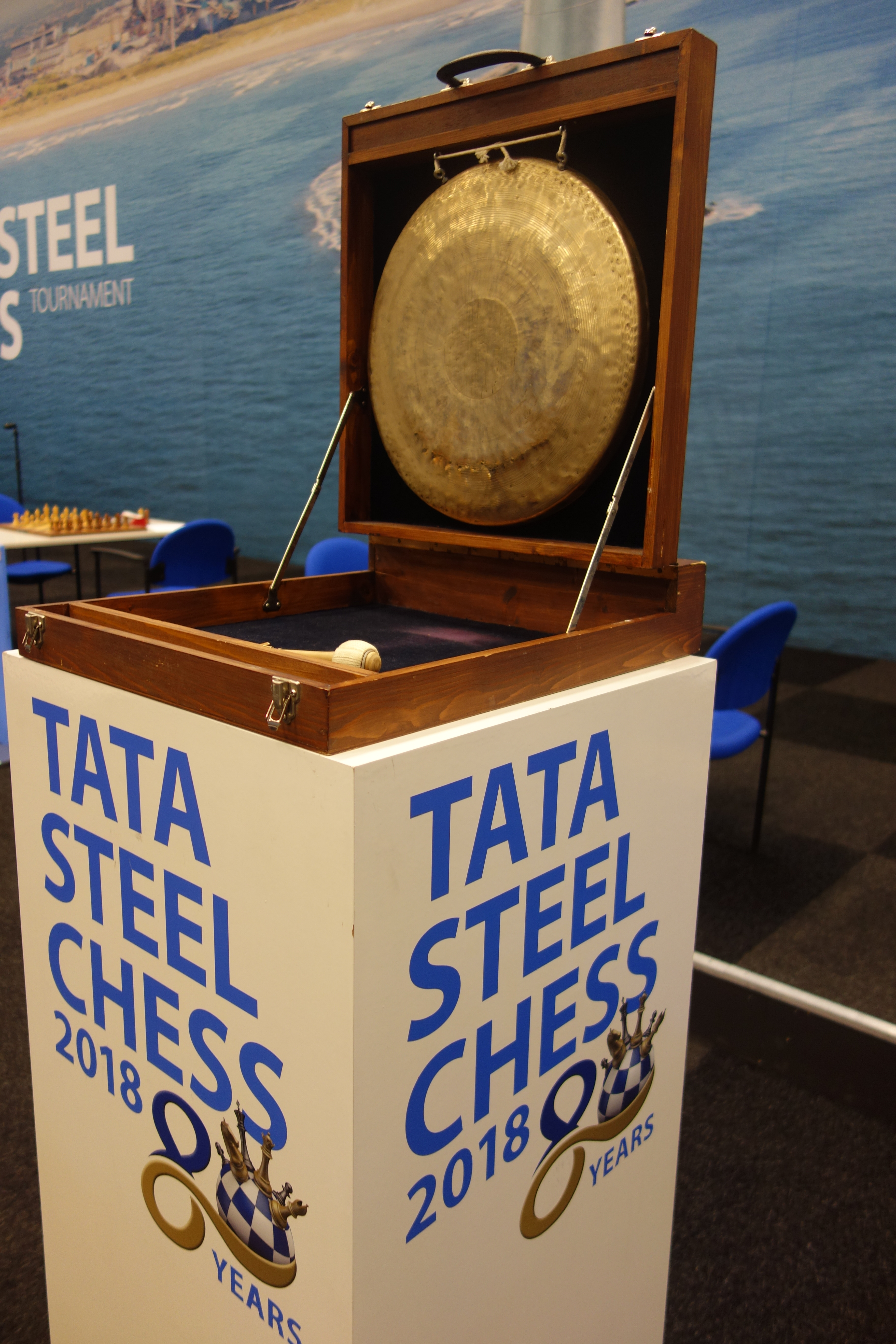 Tata Steel Chess tournament 2018